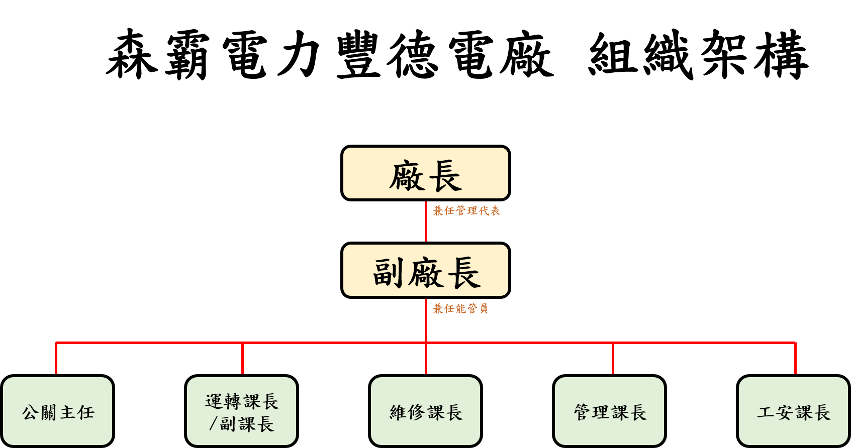 Fong-Der Power Plant Organization